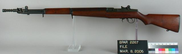 U.S. RIFLE T20E2 .30 SN# 57 Manufactured by Springfield Armory, Springfield, Ma. in March, 1945 - Experimental gas-operated, selective fire rifle - slightly longer receiver than M1 and 20-round magazine feed. Bolt has hold open device on rear receiver bridge. Muzzle velocity 2760 fps. Cyclic rate of fire 700 rpm. Select device similar to M14 selector. Full automatic fire was achieved by a connector assembly which was actuated by the operating rod handle. This, in turn, actuated a sear release or trip which, with the trigger held to the rear, disengaged the sear from the hammer lugs immediately after the bolt was locked. When the connector assemble was disengaged, the rifle could only be fired semiautomatically and functioned in a manner similar to the M1 rifle. Machined and tapped on left side of receiver for scope mount. Complete with rifle grenade launcher. Weapon has an overall length of 48 1/4", a barrel length of 24", and weighs 9.61 lbs. without accessories and 12.5 lbs. with bipod and empty magazine. Designated as limited procurement in May, 1945. Due to cessation of hostilities with Japan, number for manufacture was reduced to 100. Project was terminated in March 1948.